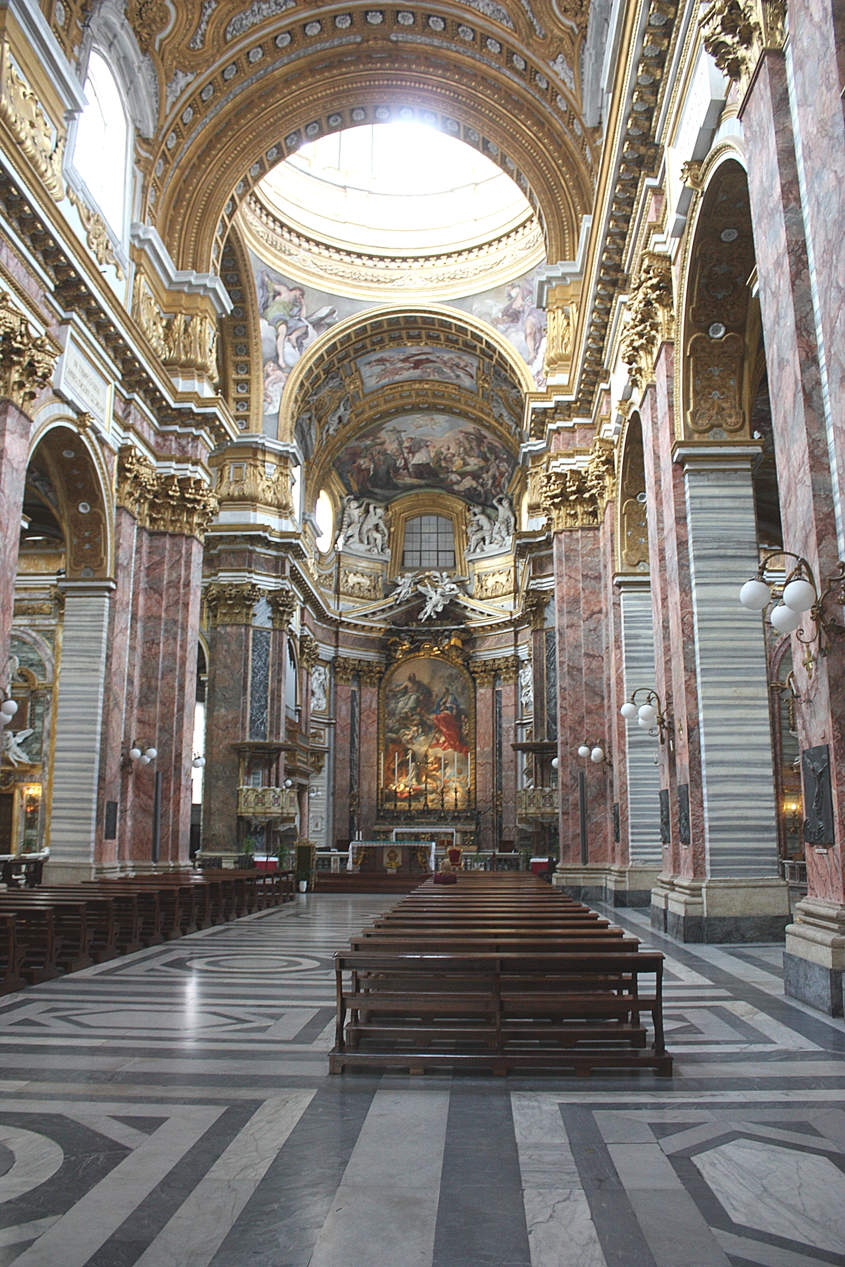 Rome, Santi Ambrogio e Carlo, inner view